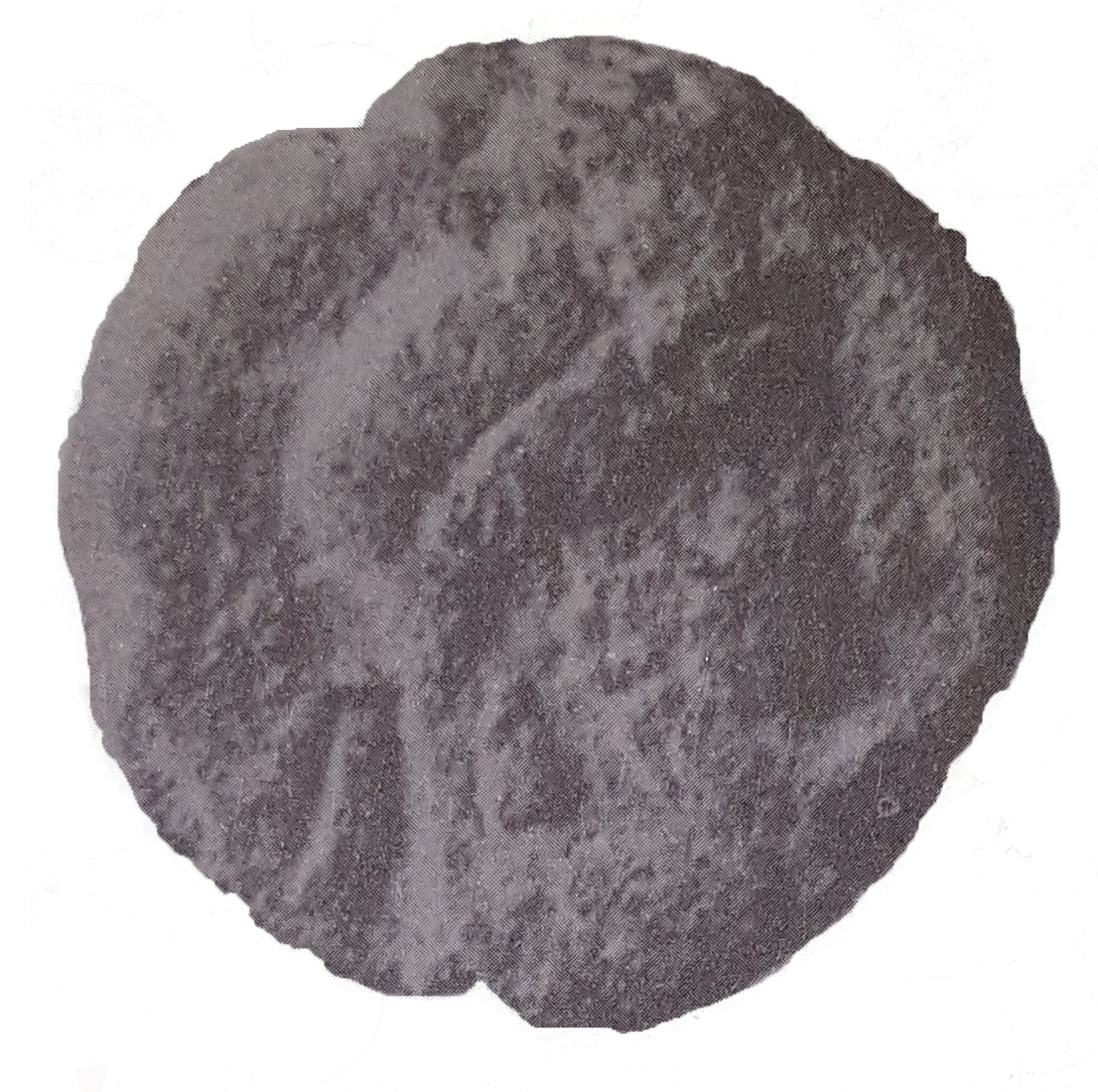 head, bearded, wearing a diadem: probably Odaenathus